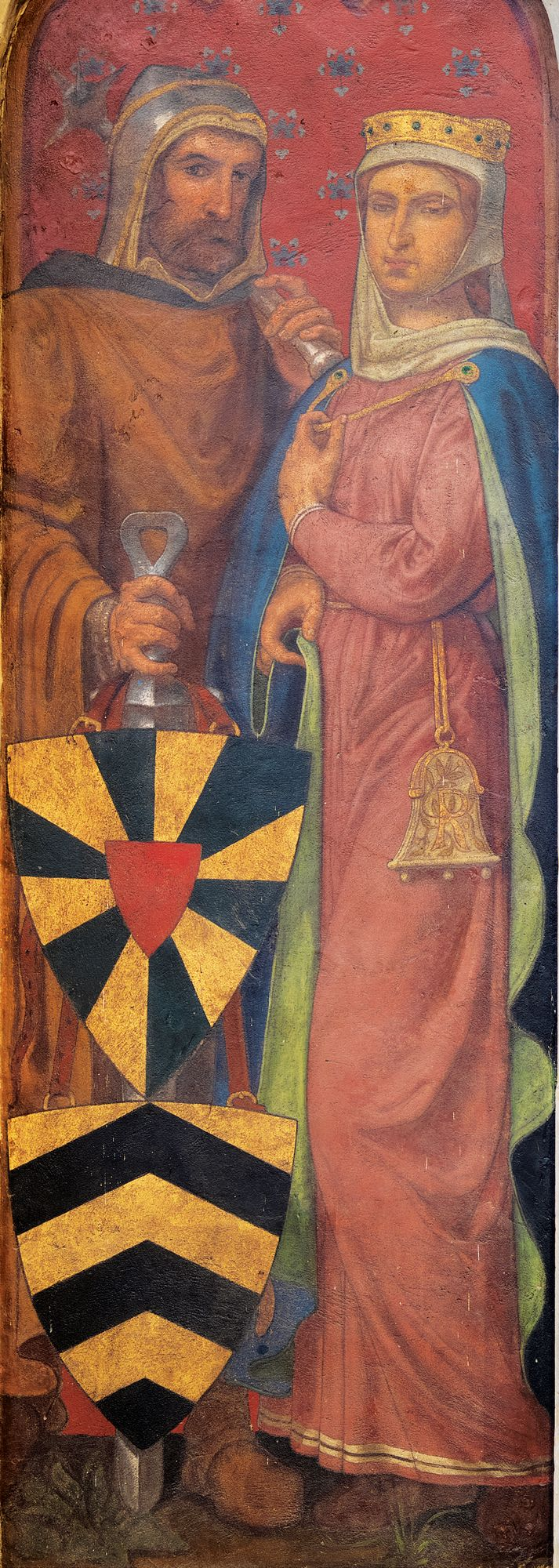 Baldwin VI of Flanders and his wife Richilde of Hainault